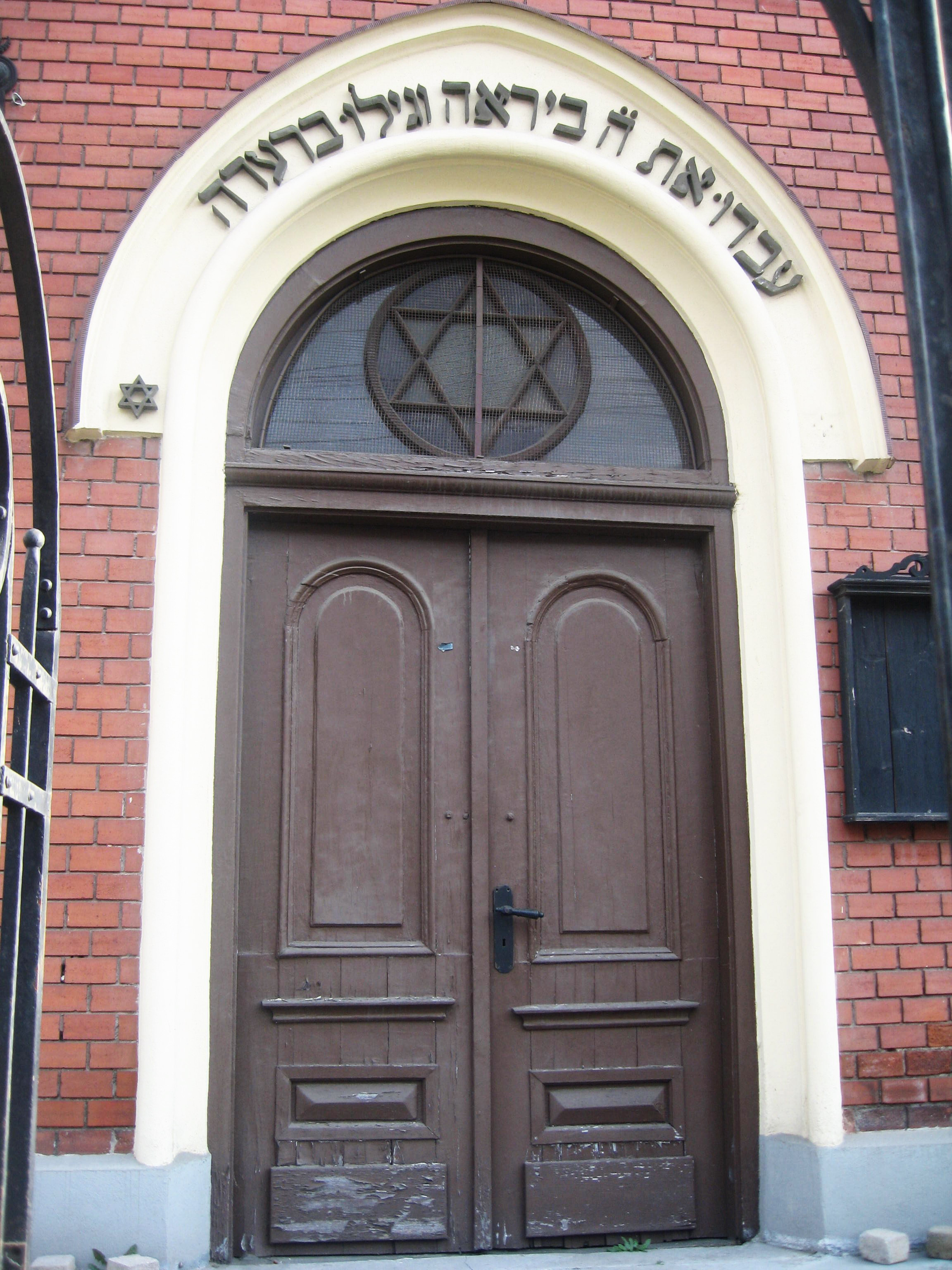 Synagogue of Sibiu. The quote on the arch, written in Hebrew, is "Serve the Lord with fear and rejoice with trembling" (Psalms 2:11).